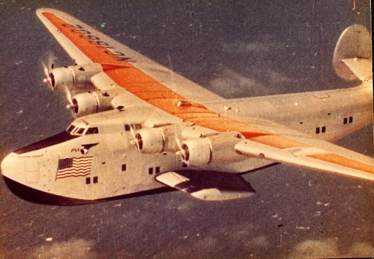 A close in-flight view of a Pan American World Airways Boeing 314 Clipper. Named California Clipper